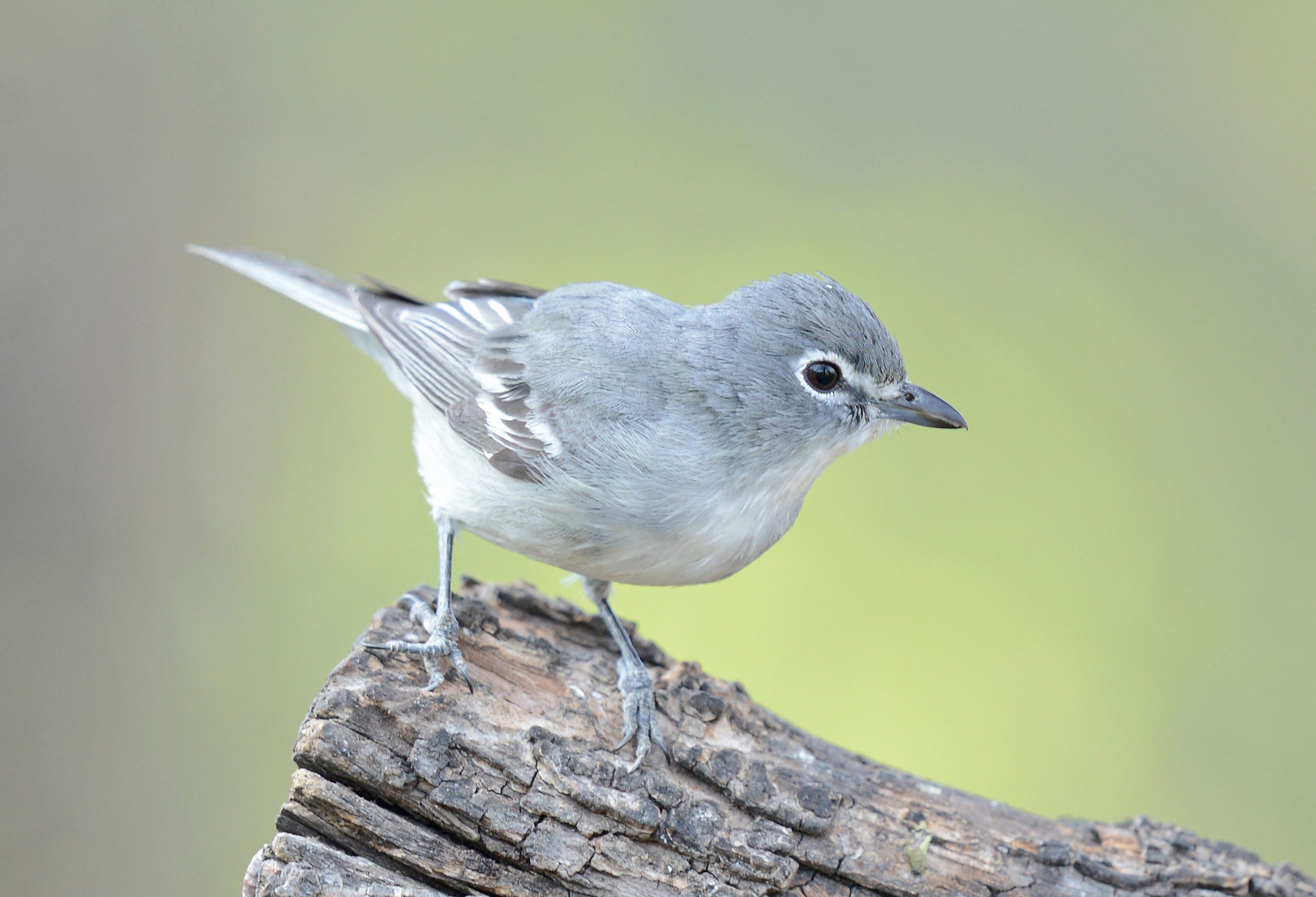 Plumbeous Vireo (Vireo plumbeus) southeastern Arizona